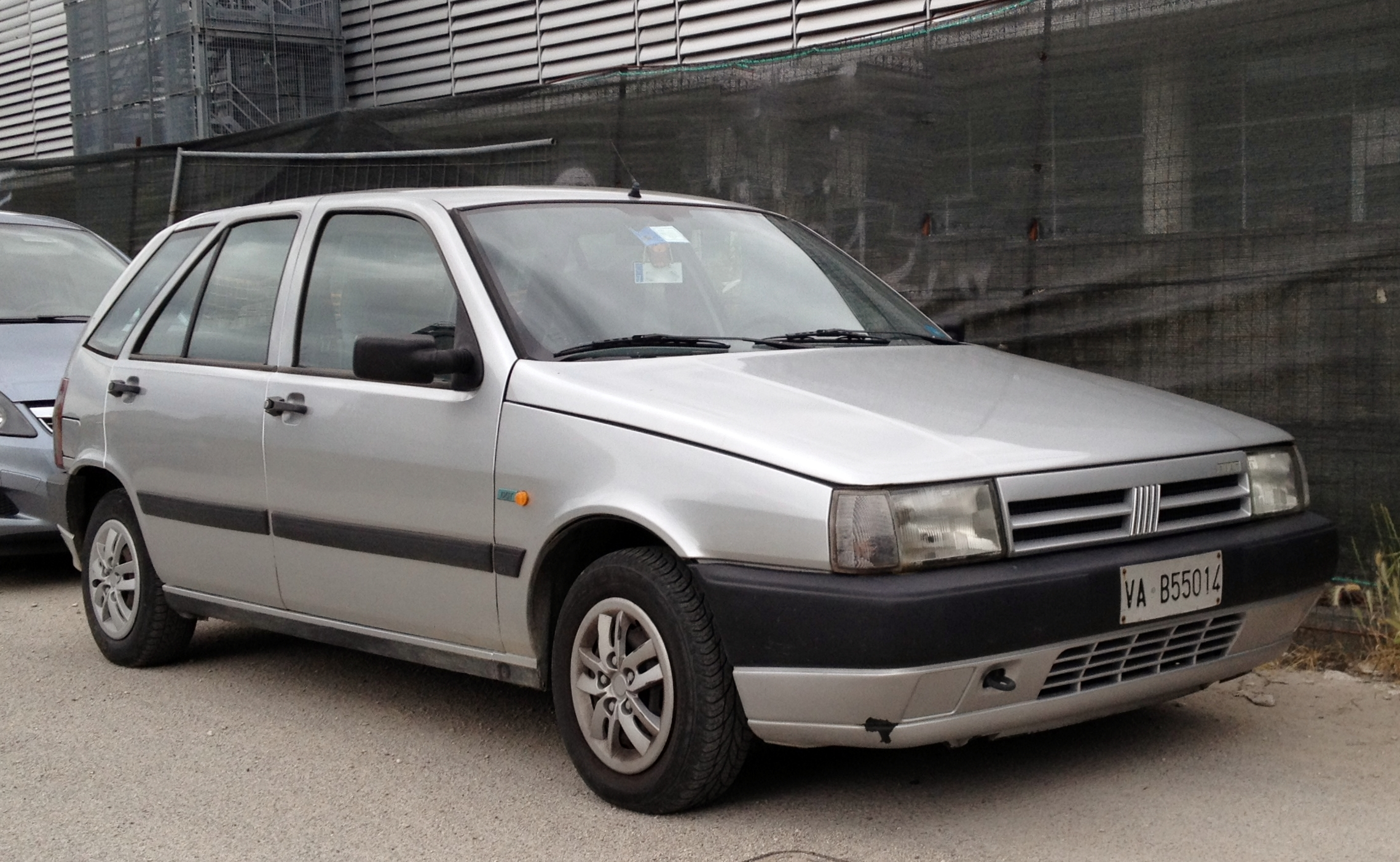 Fiat Tipo DGT in Avellino